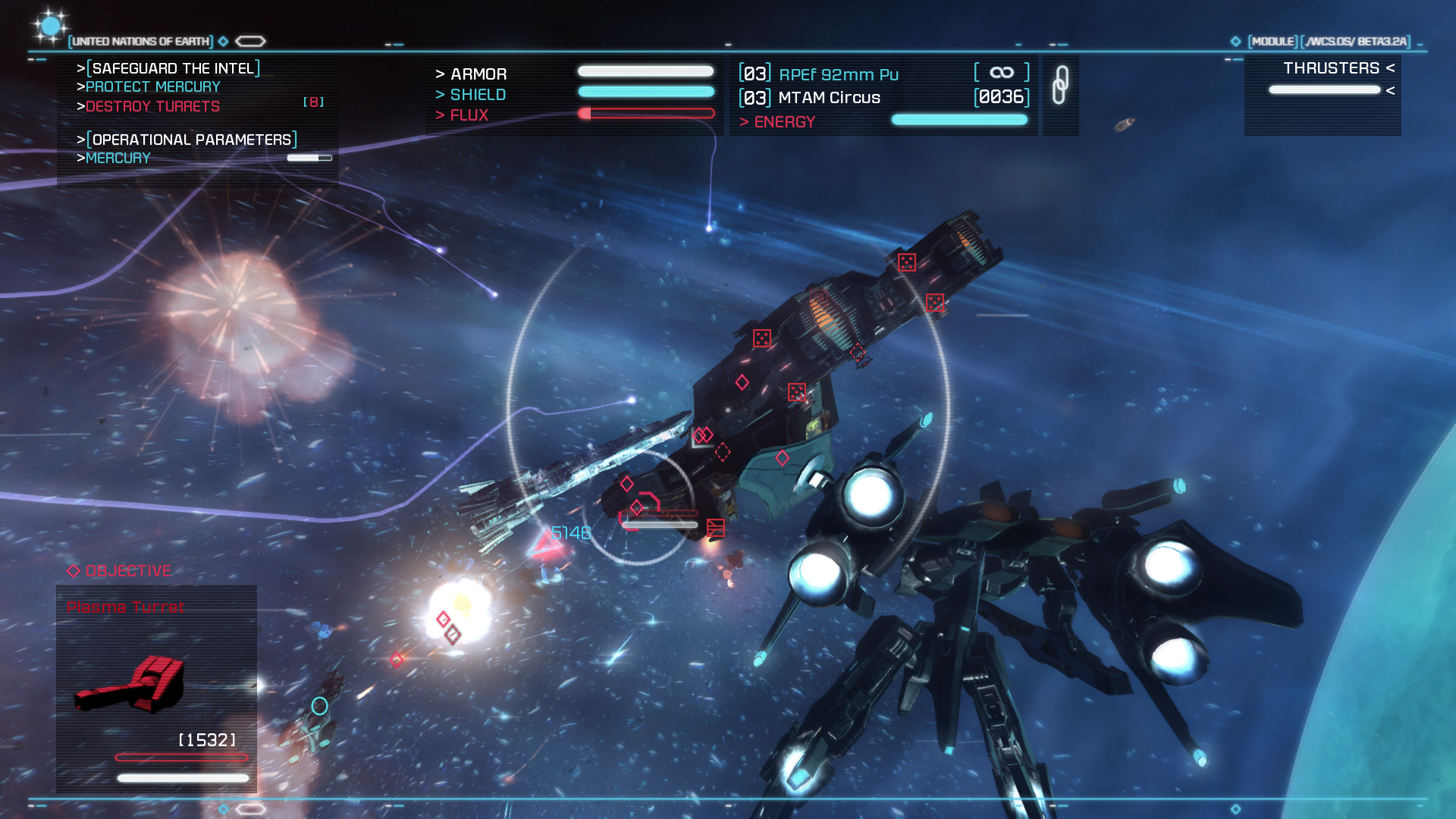 Strike Suit Zero screenshot. Released in 2013, the game was developed by Born Ready Games.